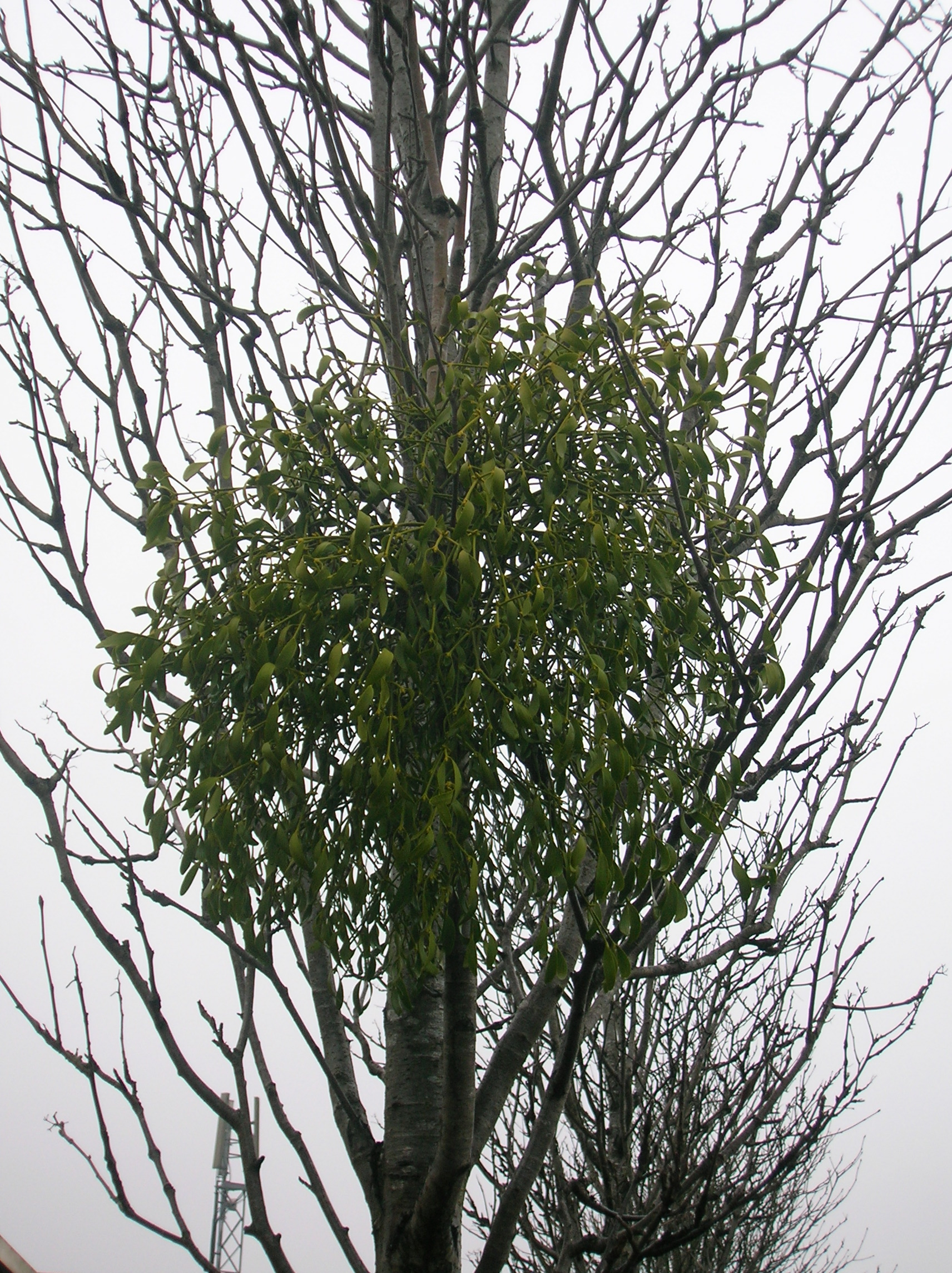 Mistletoe (Viscum album) growing on a Rowan Tree in Kilwinning, North Ayrshire, Scotland